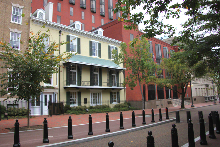 The Benjamin Ogle Tayloe House (in yellow), located at 21 Madison Place NW, Washington, D.C. The red structure to the right and behind the Tayloe House is the Howard Markey National Courts Building. The Tayloe House is part of the National Courts Complex.